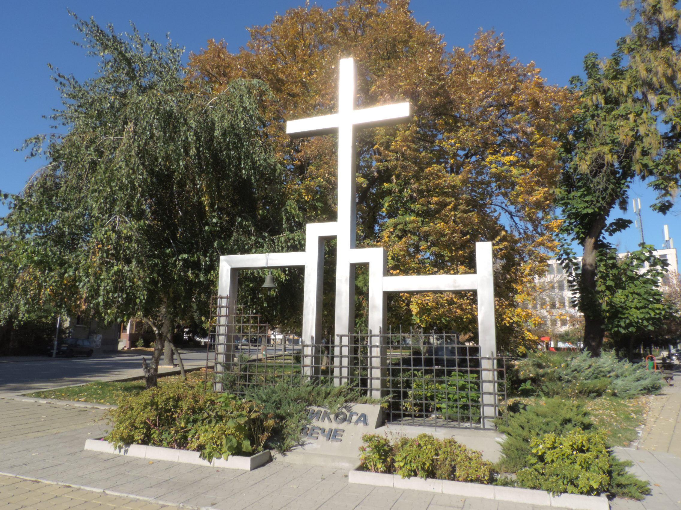 The "Never Again" monument in village Kaloyanovo, Plovdiv Province